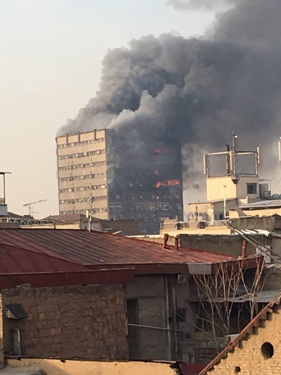 Plasco Building in Tehran which clopssed due to blaze in 19.01.2017